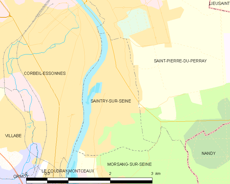 Map of French municipality Saintry-sur-Seine